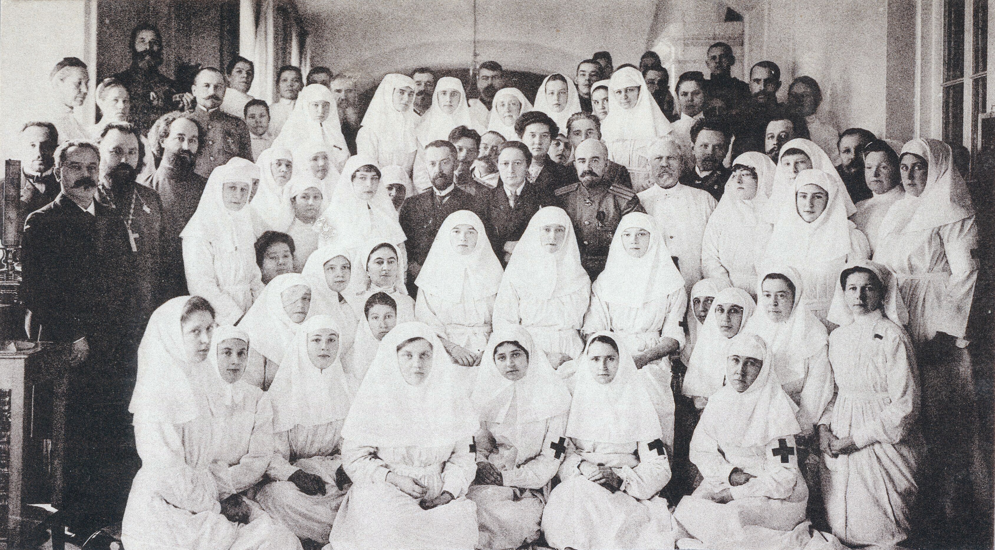 Staff of the Imperial court hospital.Original description: Scenes in the infirmary: Doctors, nurses, and patients.